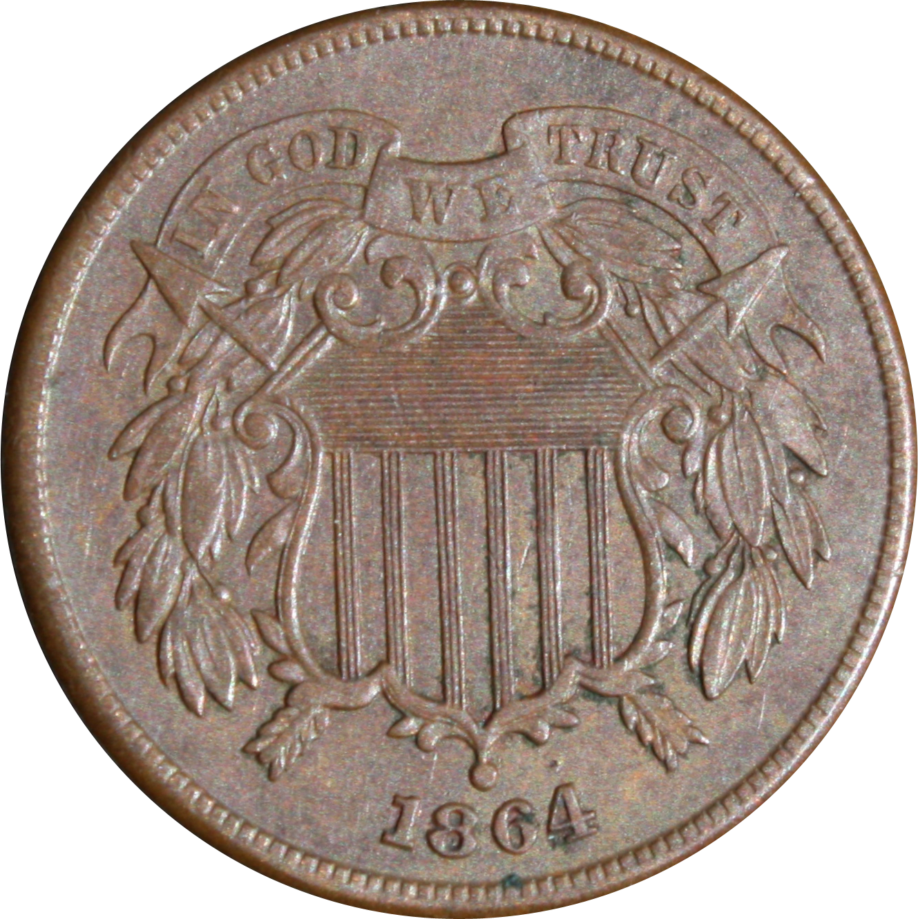 Obverse of the two cent piece designed by James Longacre.